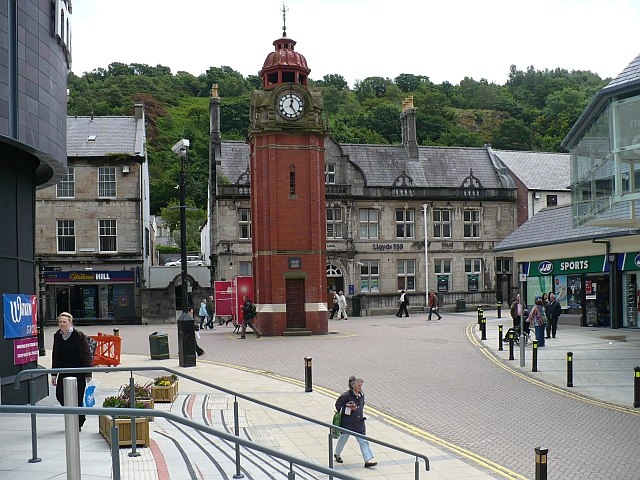 Bangor clock tower Presented to the city by an ex Mayor of Bangor in 1886/7.